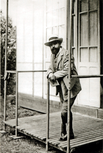 Henri Manguin outside his studio.